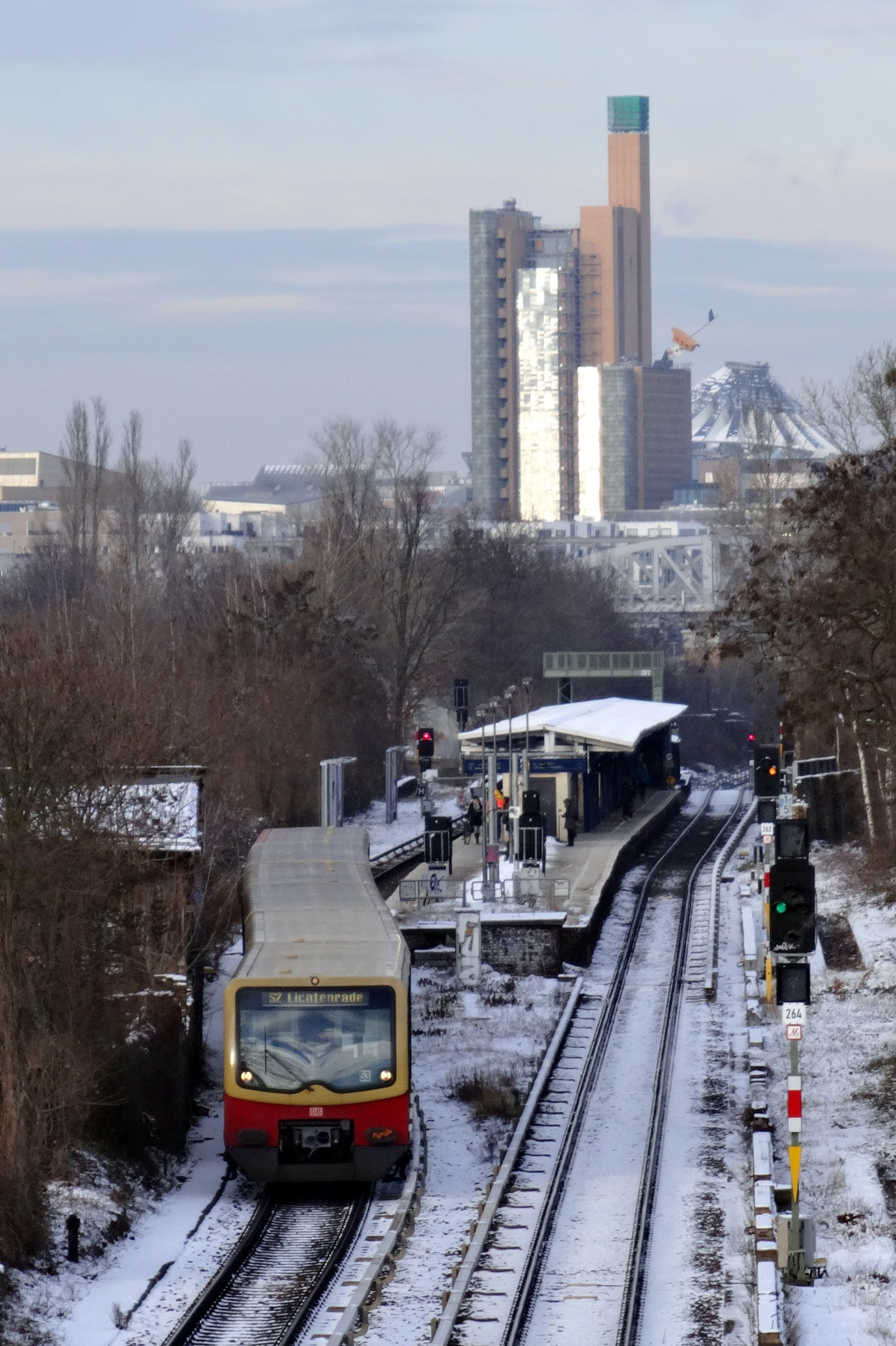 Train (S-Bahn) station Yorckstraße, Berlin